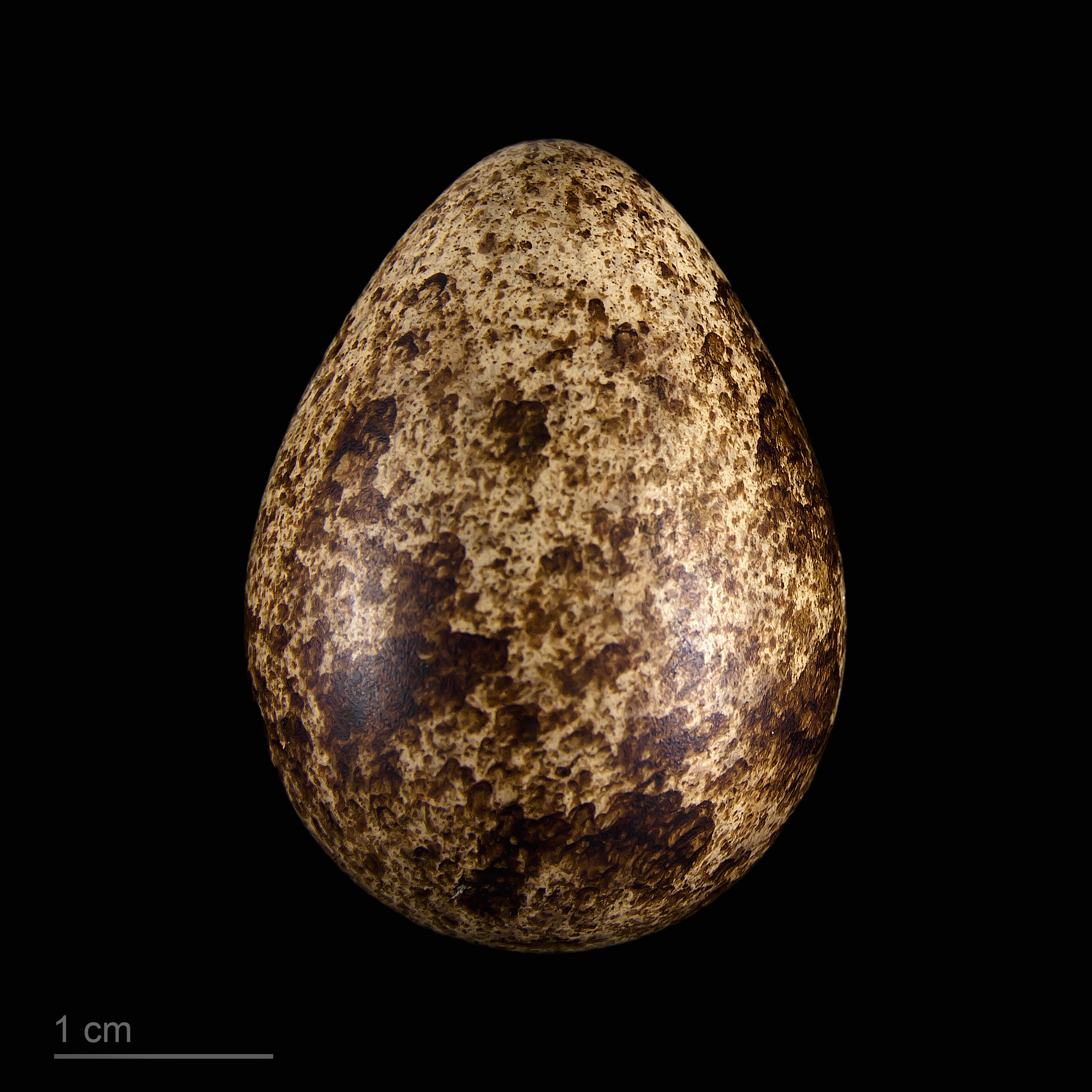 Egg of broad-billed sandpiper collection of Jacques Perrin de Brichambaut.